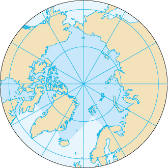 Arctic Ocean map (language neutral version)